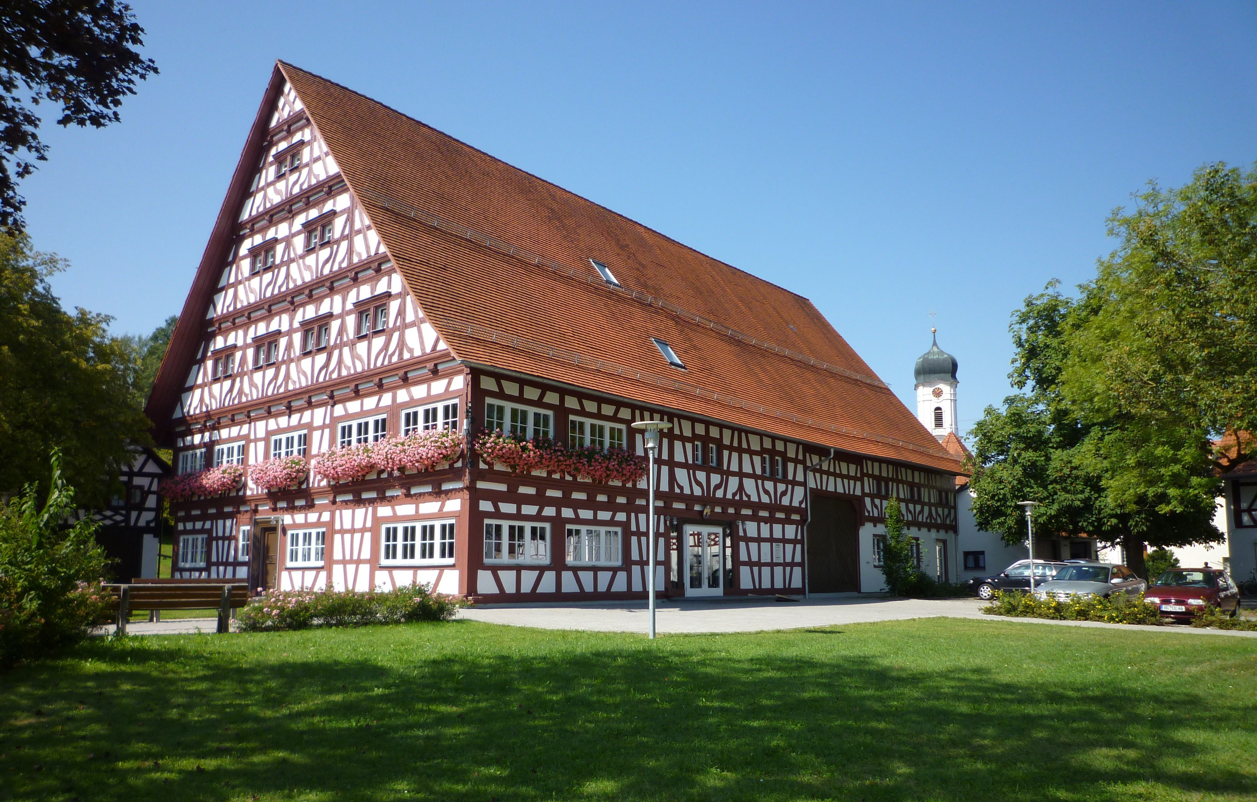 Winterstettenstadt - Timber framed house with flower decoration